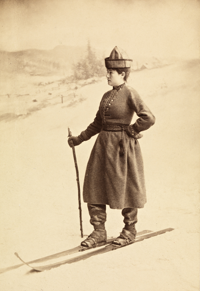 Eva Nansen, wife of Fridtjof Nansen, skiing near Christiania (Oslo), Norway around the time of her marriage.